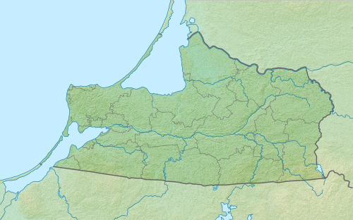 Location map of the Kaliningrad Oblast, Russia Equirectangular projection, N/S stretching 174 %. Geographic limits of the map: N: 55.5° N S: 54.1° N W: 19.2° E E: 23.1° E